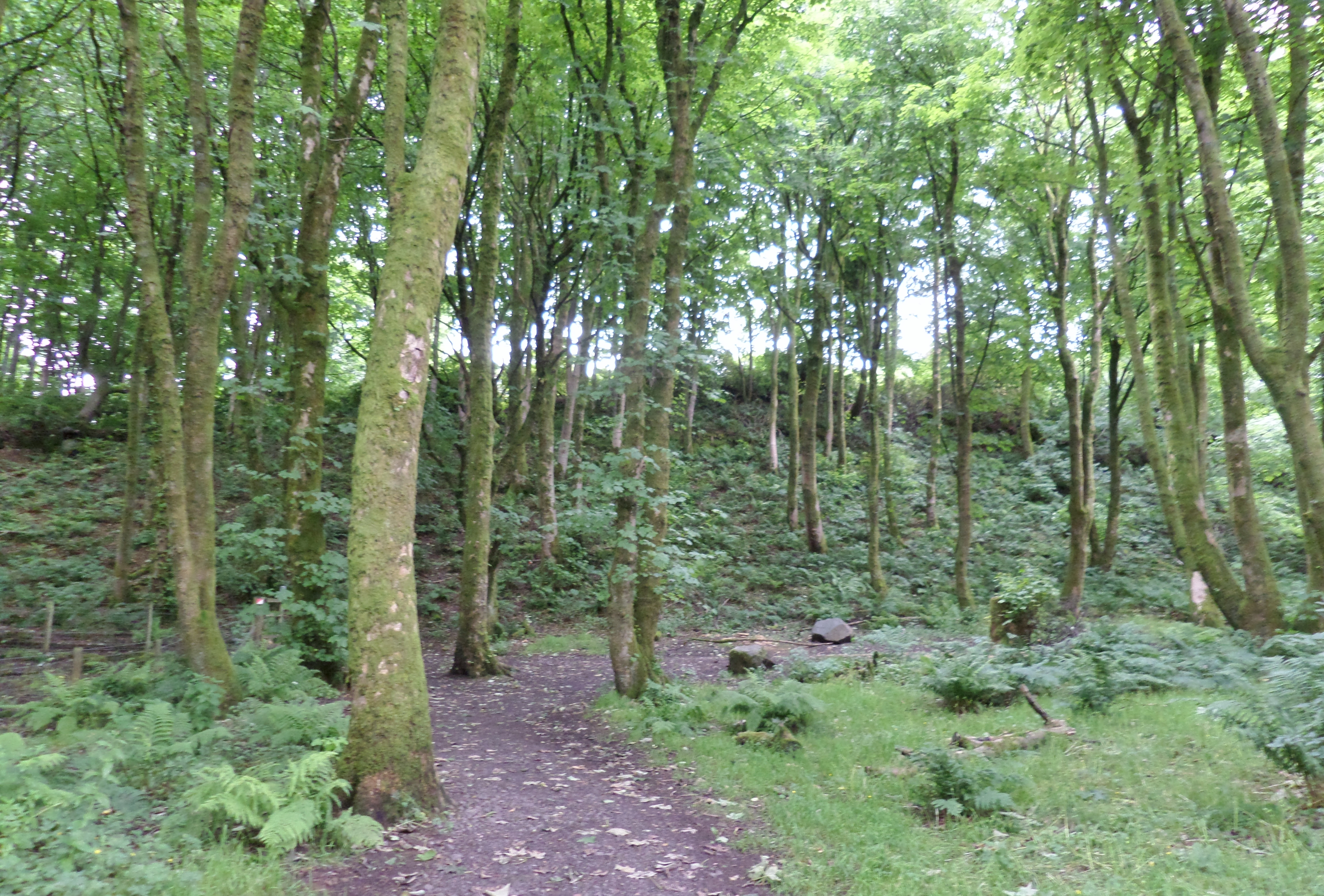 Courtshaw Wood, Castle Semple, Lochwinnoch, Ayrshire. A feudal court maay have been held on Courtshaw Hill and a Fog House once stood here.